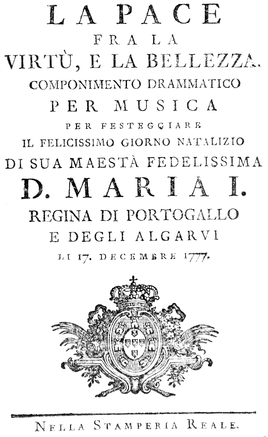 Davide Perez - La pace fra la virtù e la bellezza - titlepage of the libretto - Lissabon 1777